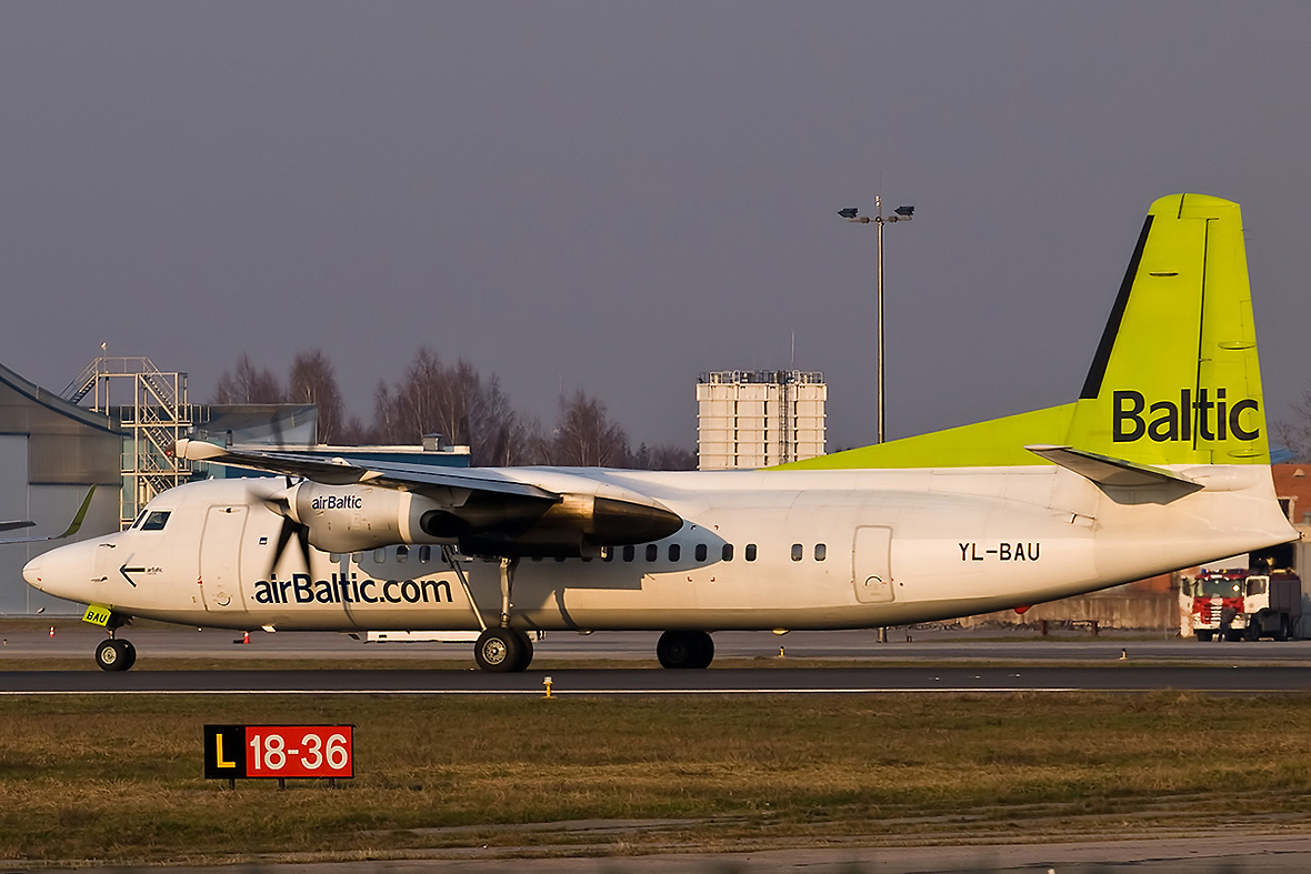 AirBaltic Fokker 50 at Riga International Airport.